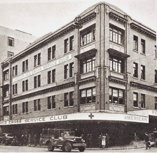 The American Red Cross Services Club, at the corner of Adelaide and Creek Streets, Brisbane, Australia, circa 1943. The building, along with the nearby U.S. services postal exchange (PX), was attacked by Australian servicemen and civilians, during the so-called "Battle of Brisbane" on November 26-27 1942.